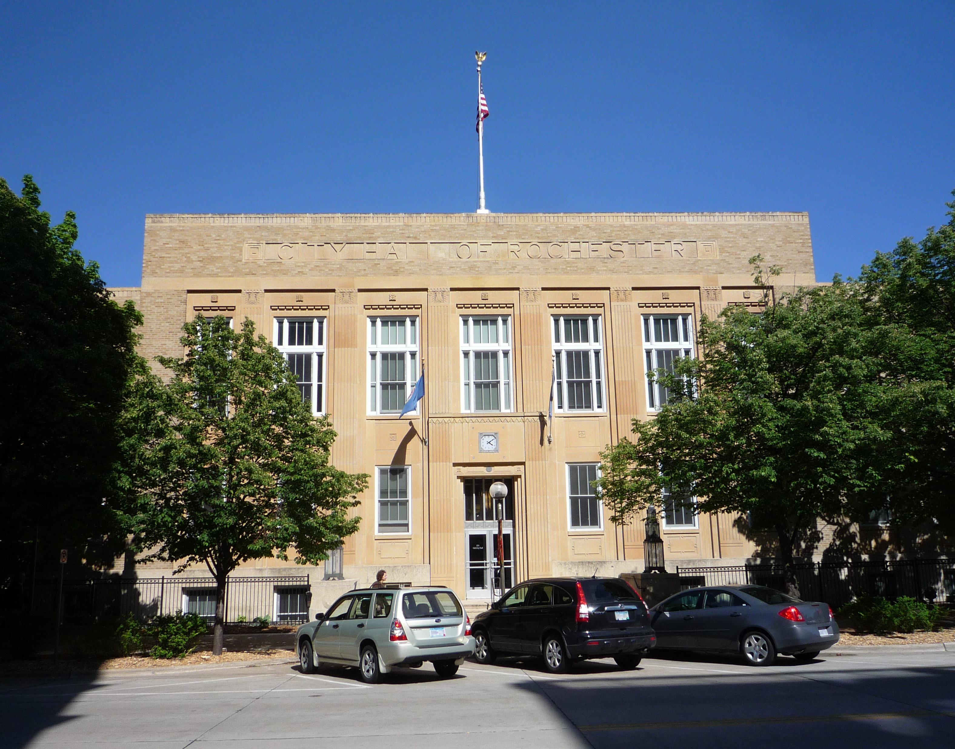 Old City Hall of Rochester, Minnesota, USA. .